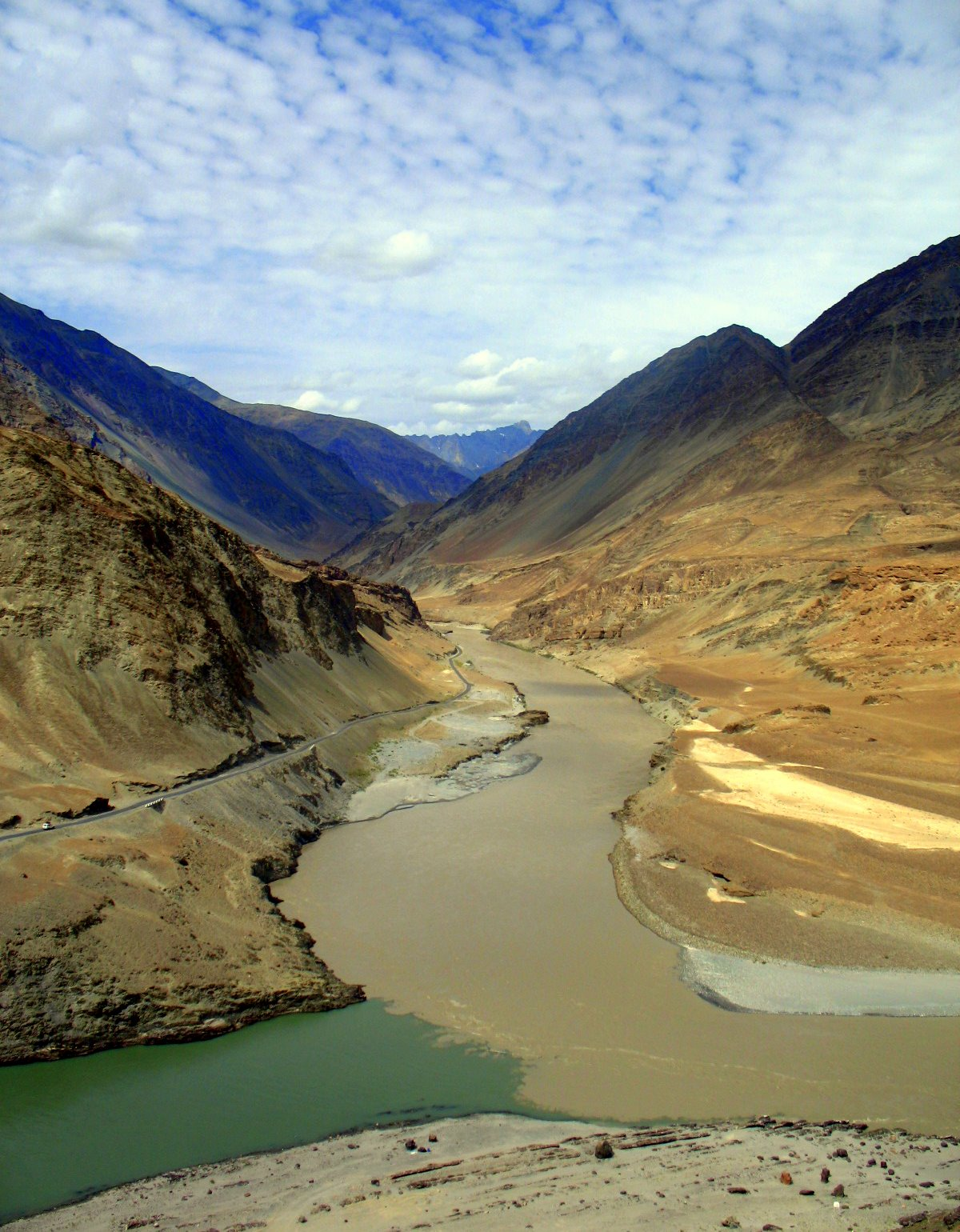 The confluence of the Indus (green water to the left) and Zanskar (brown water to the right) rivers.